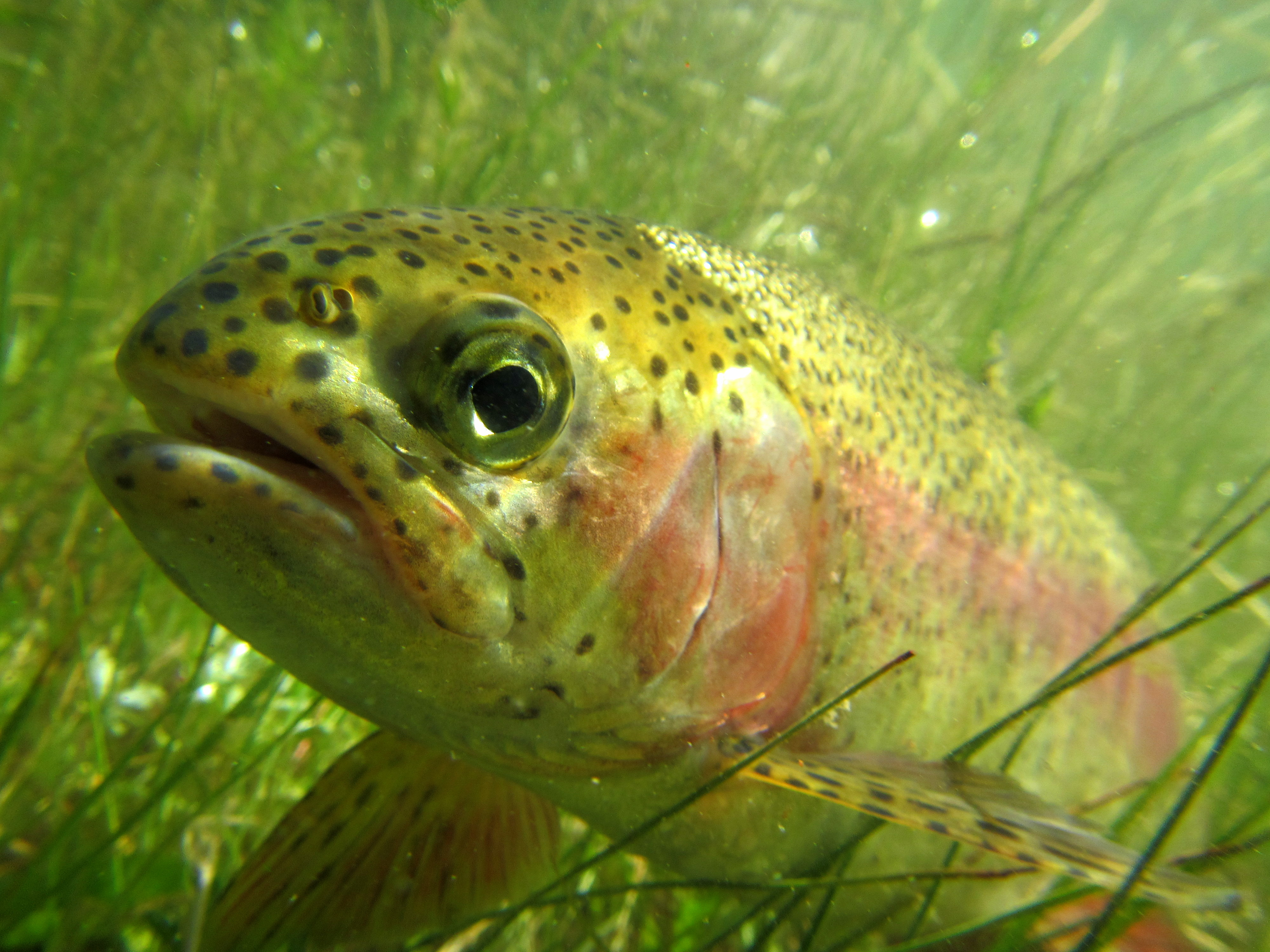 Photo by USFWS.